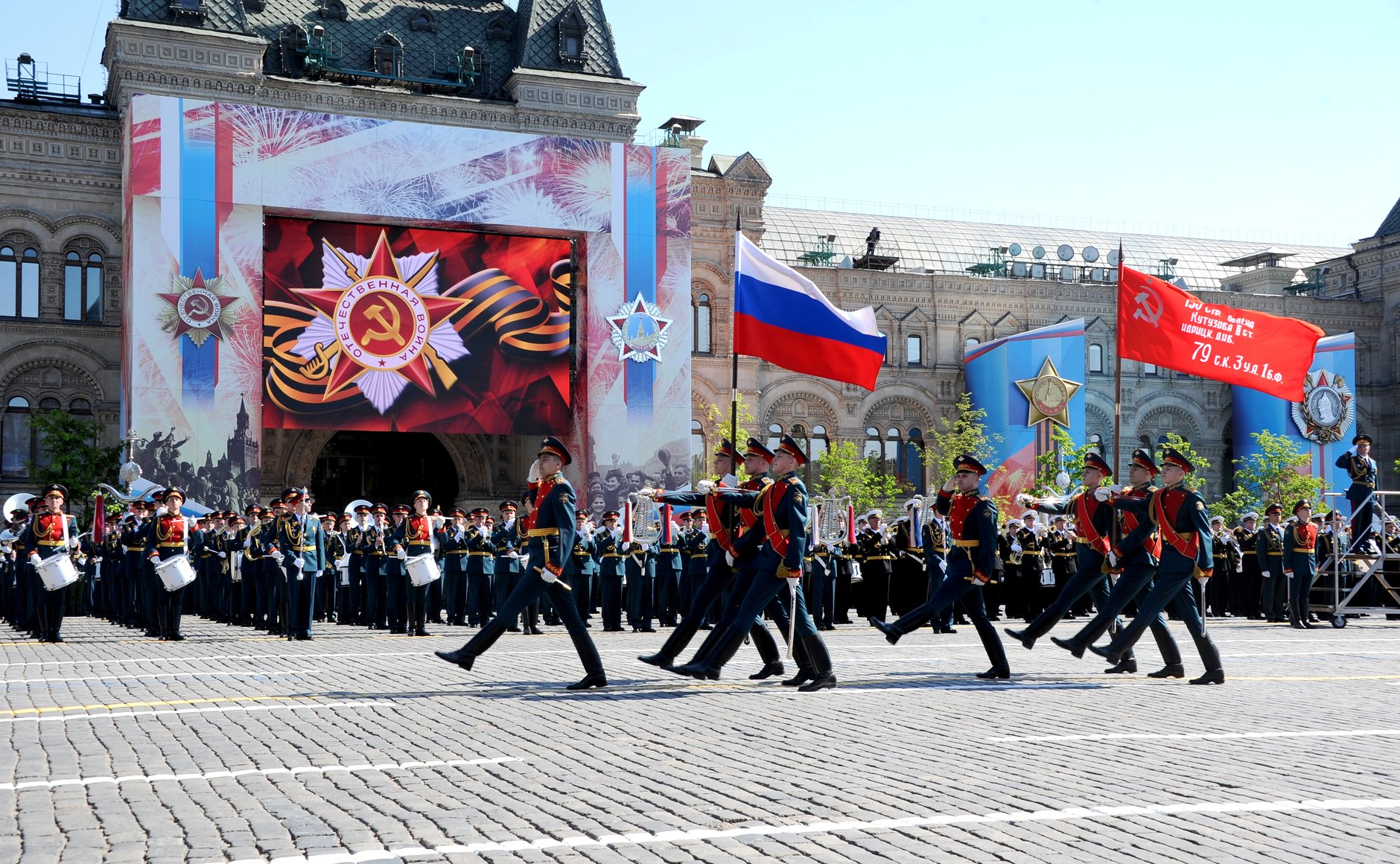 Military parade on Red Square 2016-05-09